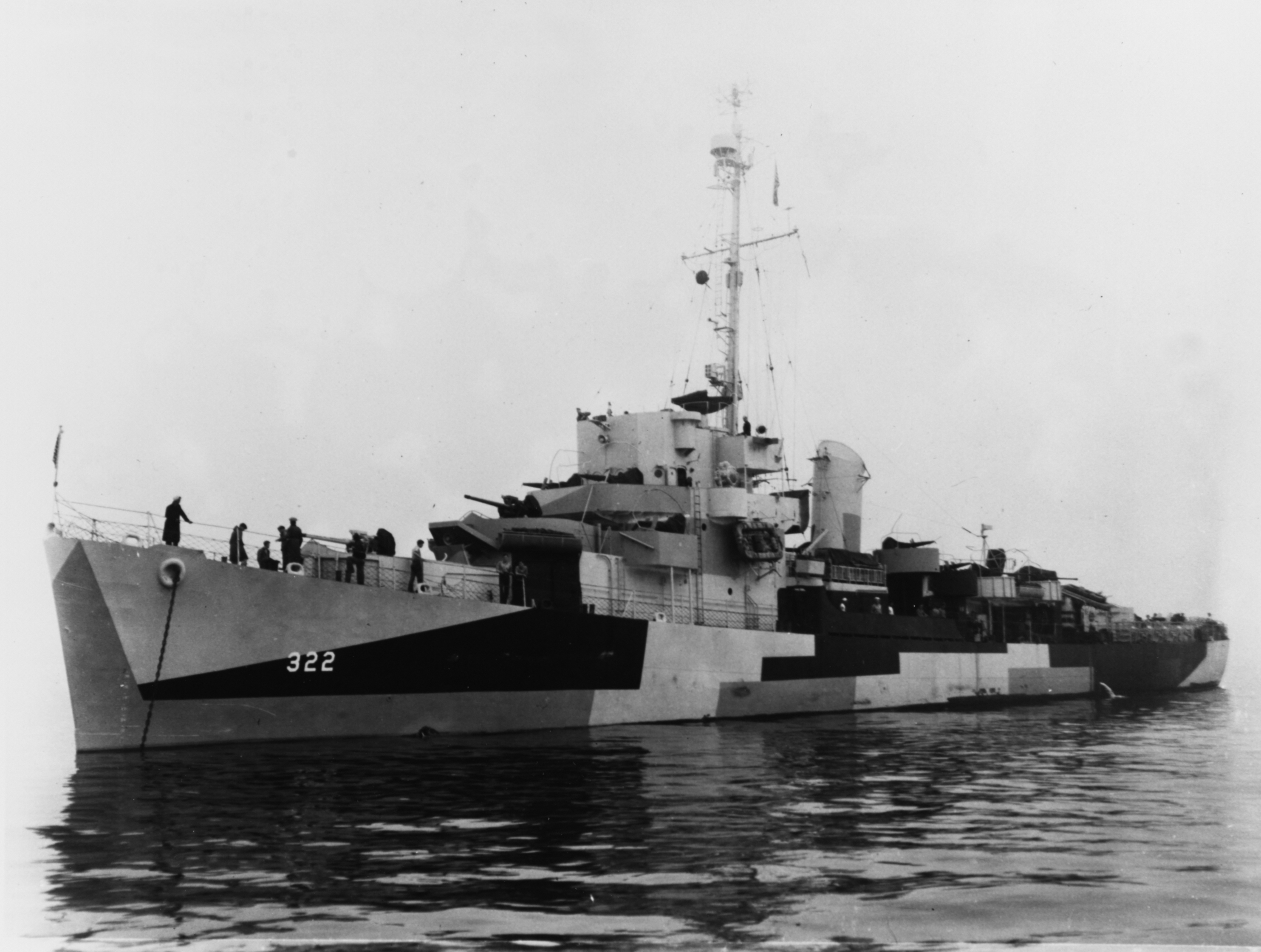 The U.S. Navy destroyer escort USS Newell (DE-322) at anchor in New York Harbor (USA) on 2 June 1944, while painted in a modified version of Camouflage Measure 32, Design 3D.